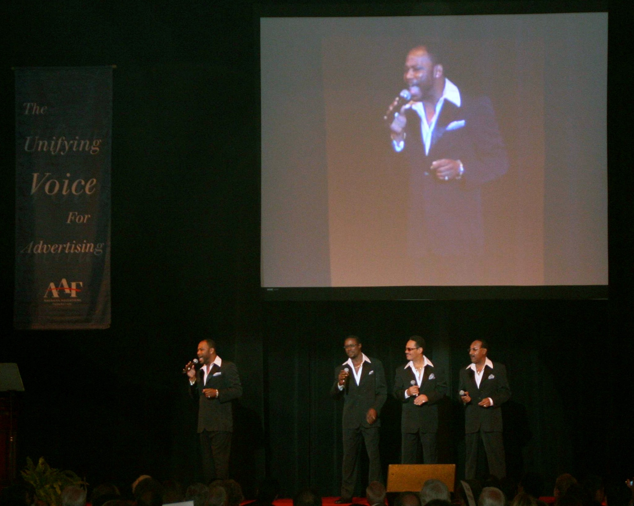 The Four Tops perform at the AAF (American Advertising Federation) Hall of Fame Awards in NYC